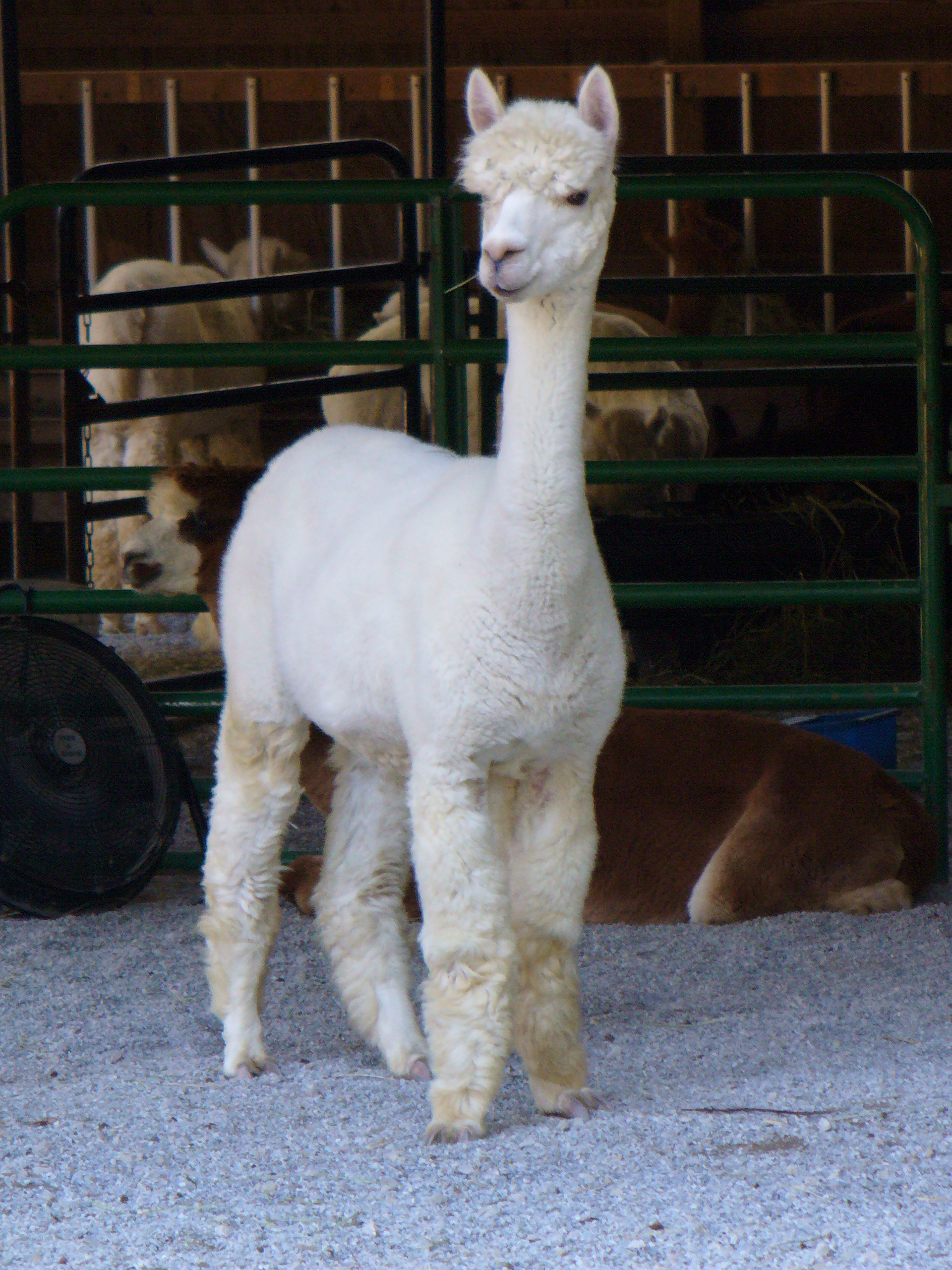 Alpacas in Rose Hill Farm, Chardon, Ohio, USA.